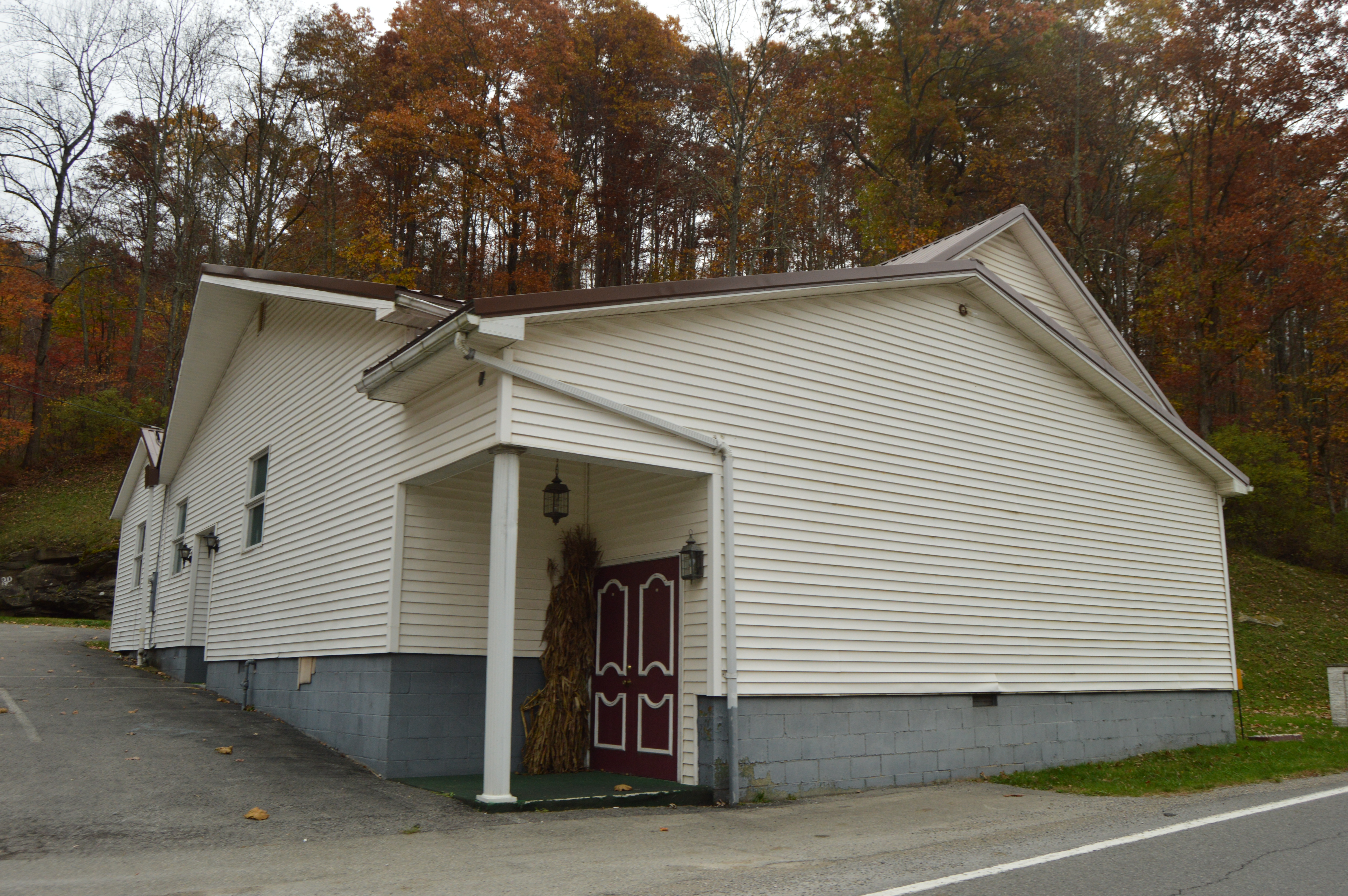 Northern side and front of the Metz Church of God of Prophecy, located on U.S. Route 250 in Metz, West Virginia, United States.